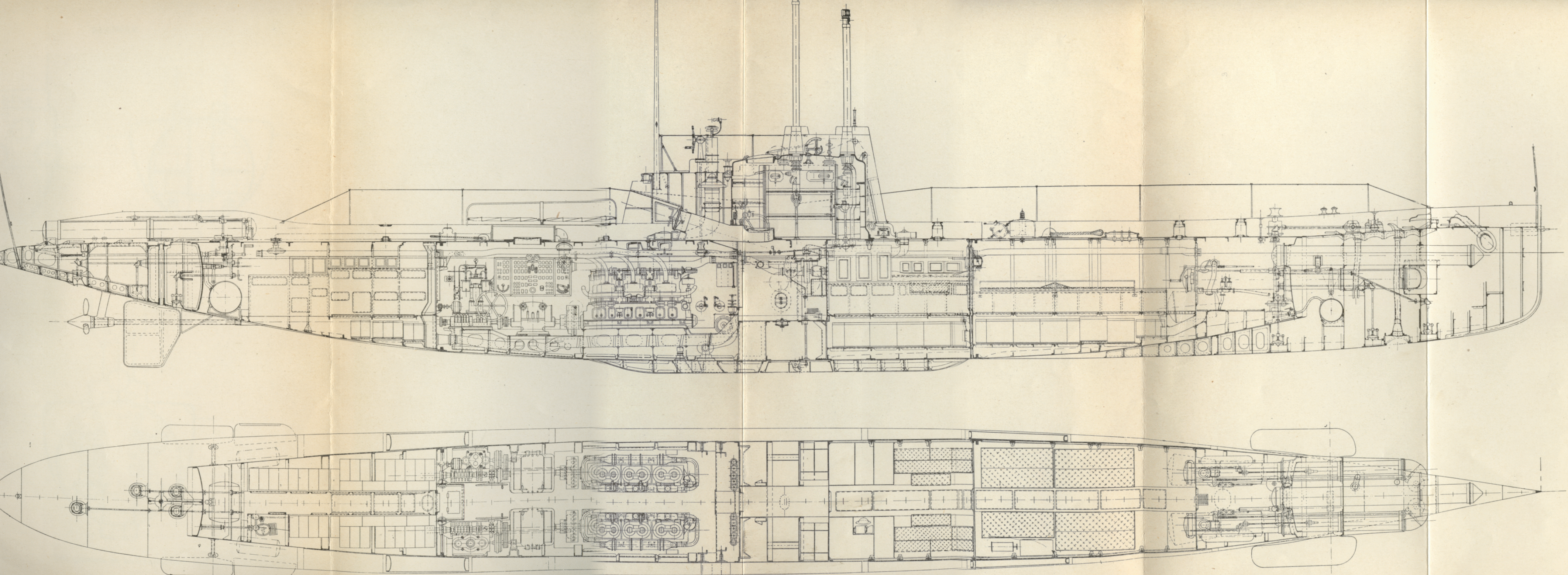 Drawing of the first Norwegian submarine - the Kobben, later renamed A-1. Entered service in 1909. Kobben had three torpedo tubes: one aft and two in the bow. The third "tube" visible in the bow is not at torpedo tube, but may be storage for one spare torpedo. (She carried two spares total) Note that the image is merged from three separate images, and that the seams may be visible.